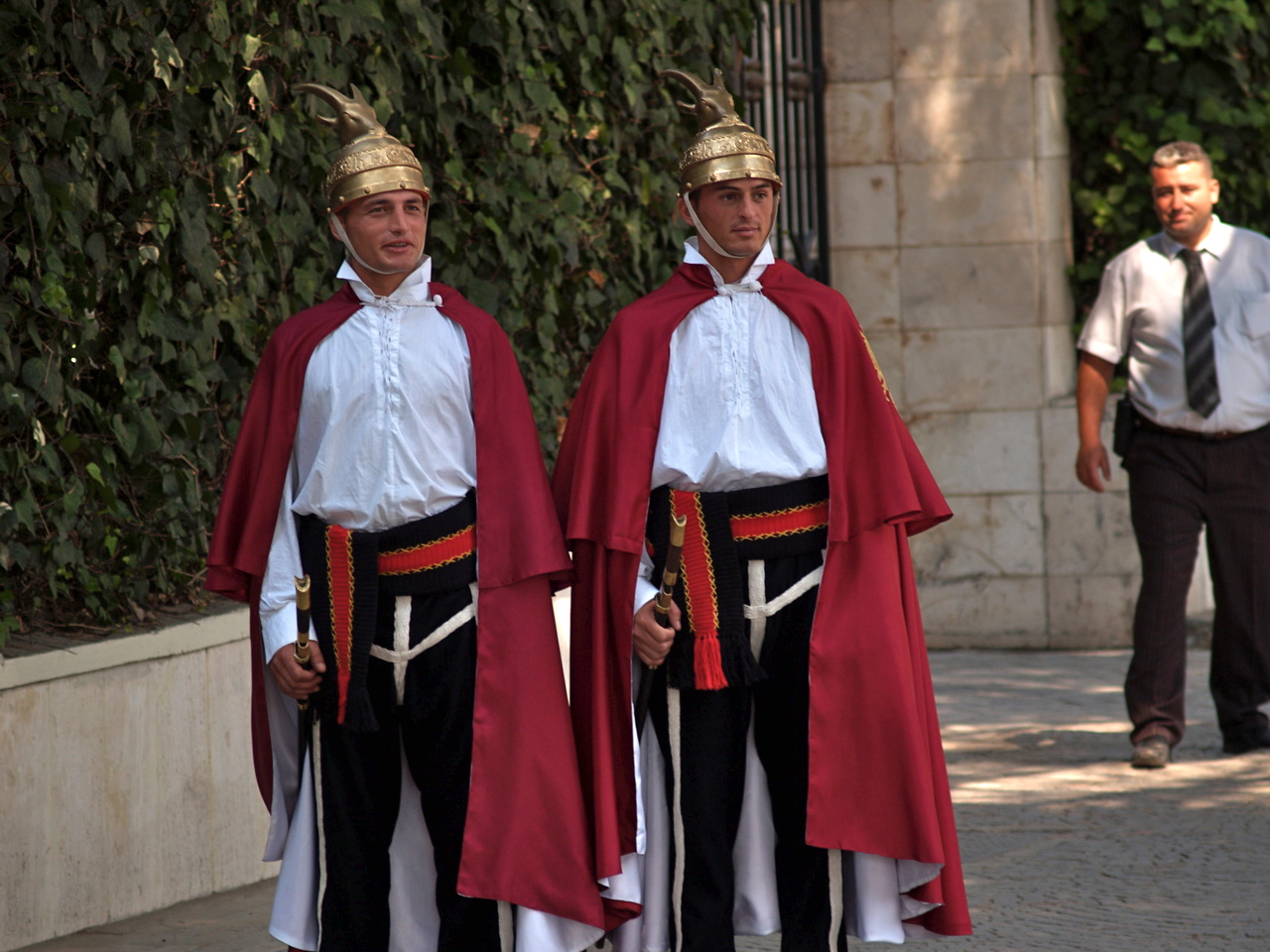 National/presidential guard on duty in Tirana